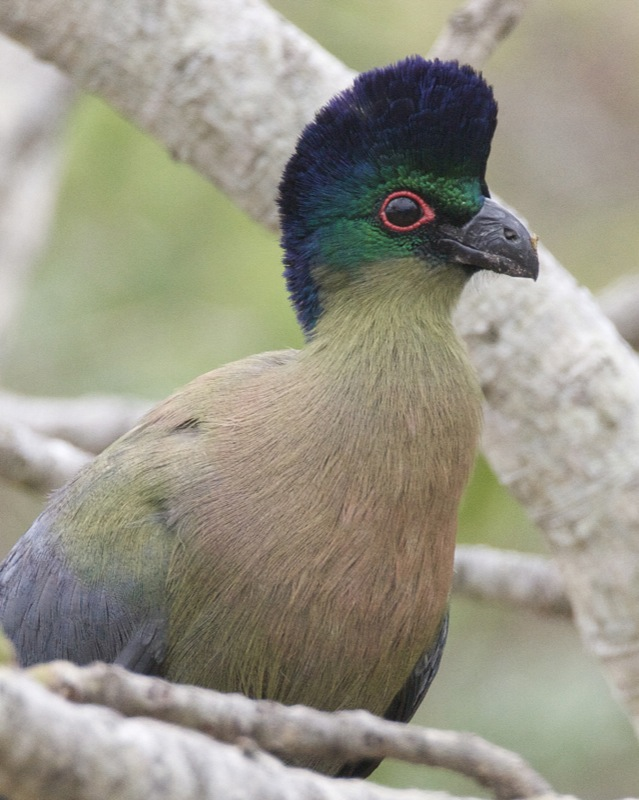 Purple-crested Turaco in a Large-leaved rock fig, in the private Kwa Madwala Game Park, Mpumalanga, South Africa Distribution of race: On Avibase